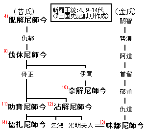 the geneology of Silla( 4th King and 9th ~ 14th King) / 新羅王系図(第4代及び9～12代)